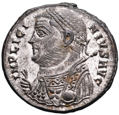 From Rasiel's Roman Imperial Type Set kutcare